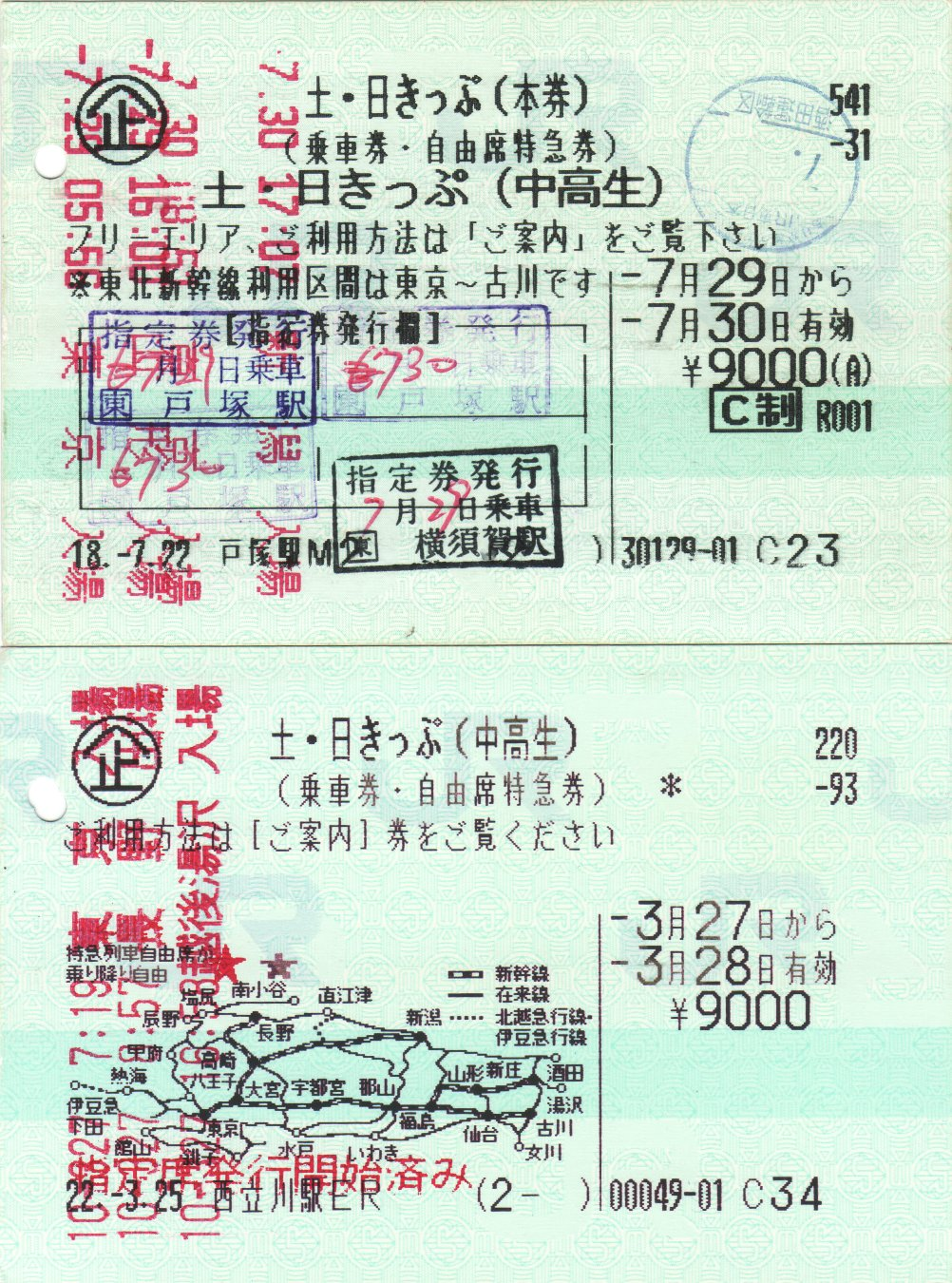 The 2Day Donichi Kippu of JR East.